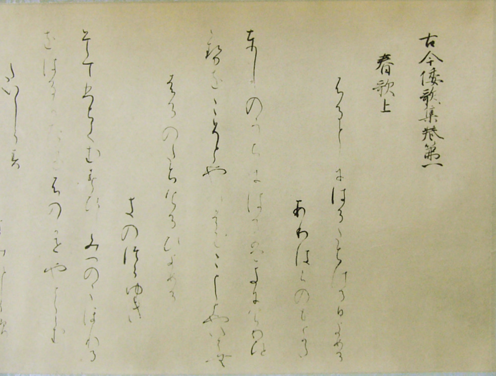 A fragment from Kokin Waka Shu (An Imperial Poetry Anthology) known as "Koyagire", The Opening Part of 1st Scroll.26cm height